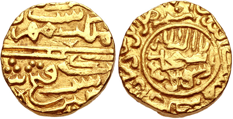 INDIA, Islamic Sultanates. Kashmir. Fath Shah. AH 892-904; 910-920; 921-923 / AD 1487-1499; 1505-1514; 1515-1517. AV Dinar (19mm, 11.23 g, 5h). Kashmir mint. Immobilized date of AH 851 (AD 1447/8). Couplet citing Fath Shah / Shahada; mint formula and immobilized AH date in outer margin. CIS K55; Rajgor Type 2846. VF, toned, areas of weak strike. Very rare.